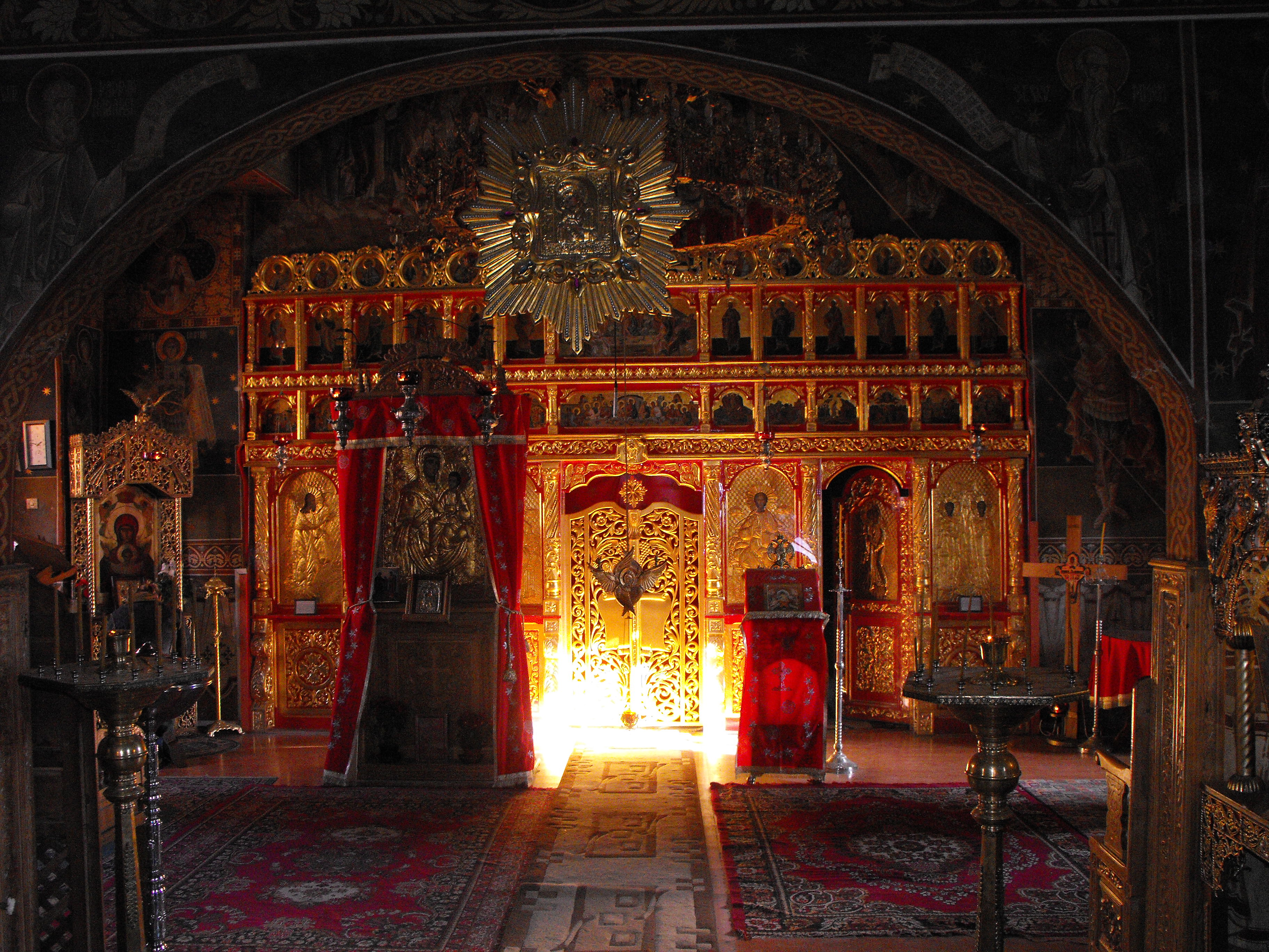 Petru Voda Monastery - reredos